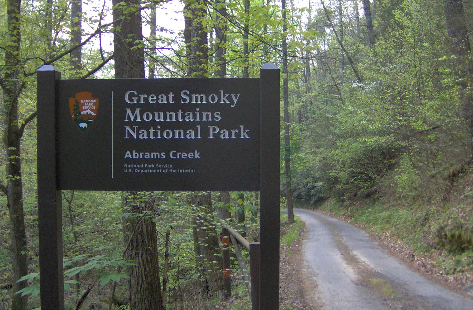 The Abrams Creek entrance to the Great Smoky Mountains National Park near Happy Valley, Tennessee, in the southeastern United States.